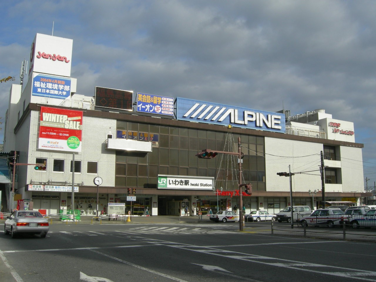 JR常磐線 いわき駅旧駅舎（JR Joban line,Iwaki station(old)）